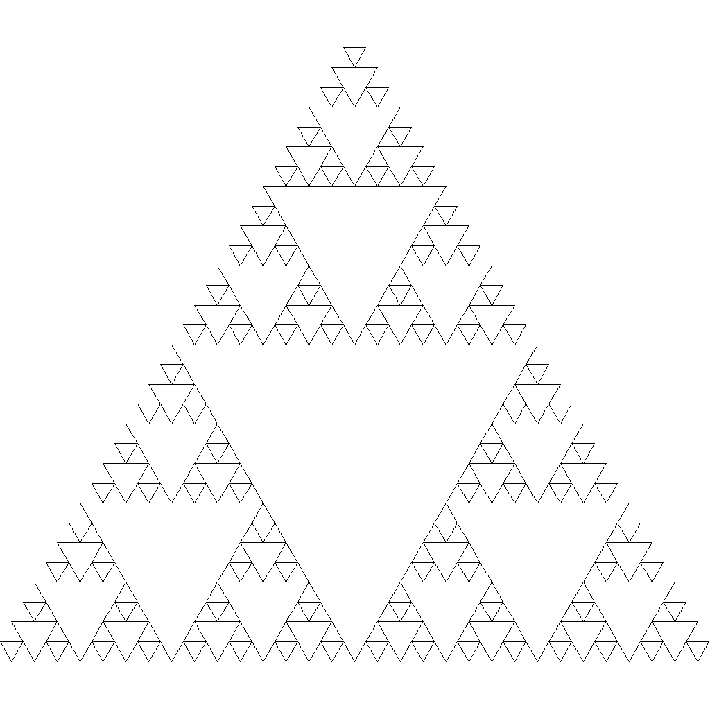 S3 Sierpinski L4 All